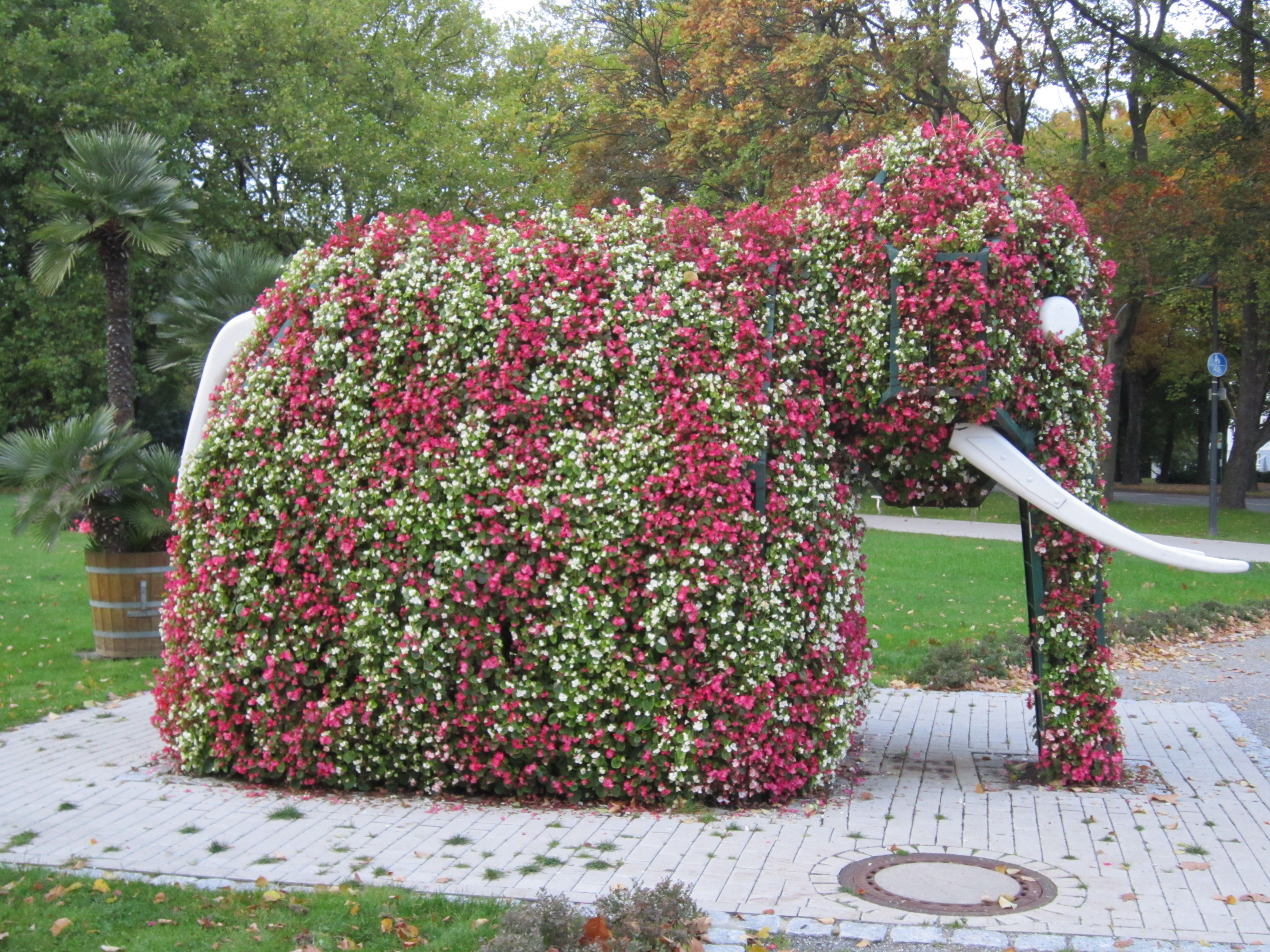 Flowered elephant sculpture in Bad Hamm